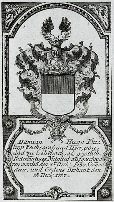 Damian Hugo Philipp von Lehrbach (1738-1815), Reichsgraf, Jesuit, Freisinger Domherr und Wohltäter der kath. Kirche in Speyer und Mainz; Wappen-Exlibris